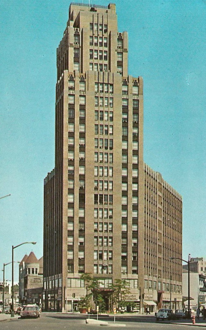 Postcard of the State Tower Building, Syracuse, New York - The city's tallest office building and a downtown ‘landmark.’ Located at 109 South Warren Street, it was built in historical Hanover Square in 1927-1928 of concrete and steel with a facade of limestone and terracotta. It cost $1,500,000 to erect, and at 21 floors, it is still Syracuse’s tallest office building.